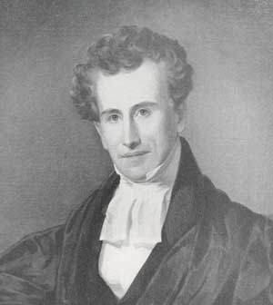 William Augustus Muhlenberg (1796-1877)